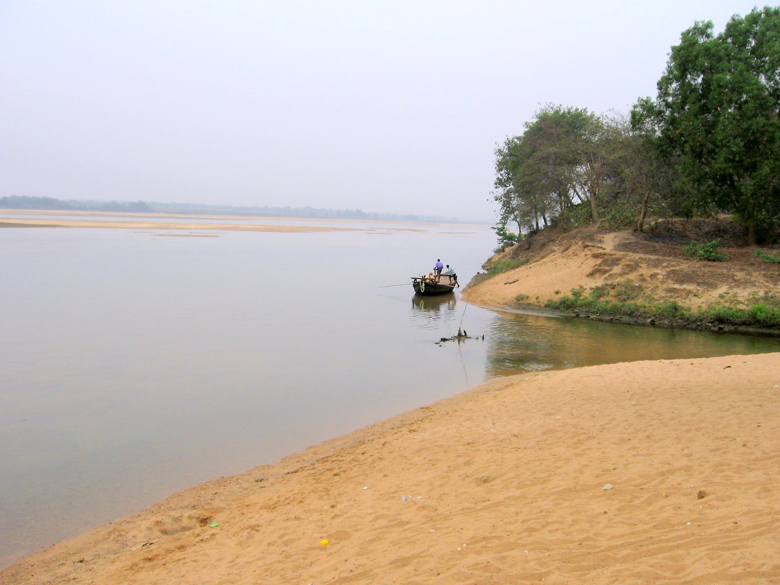 Damodar River at Burnpur